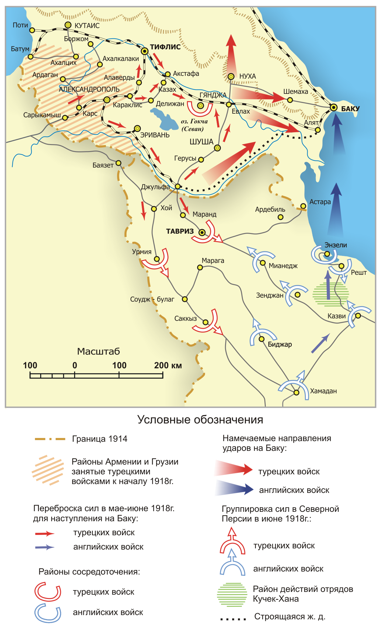 Based on original source: Kadishev A.B. "Intervention and Civil War in Transcaucasia" Moscow, 1960